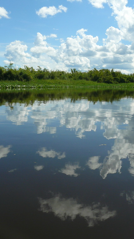 clouds and sky reflected in the river Manduvirá